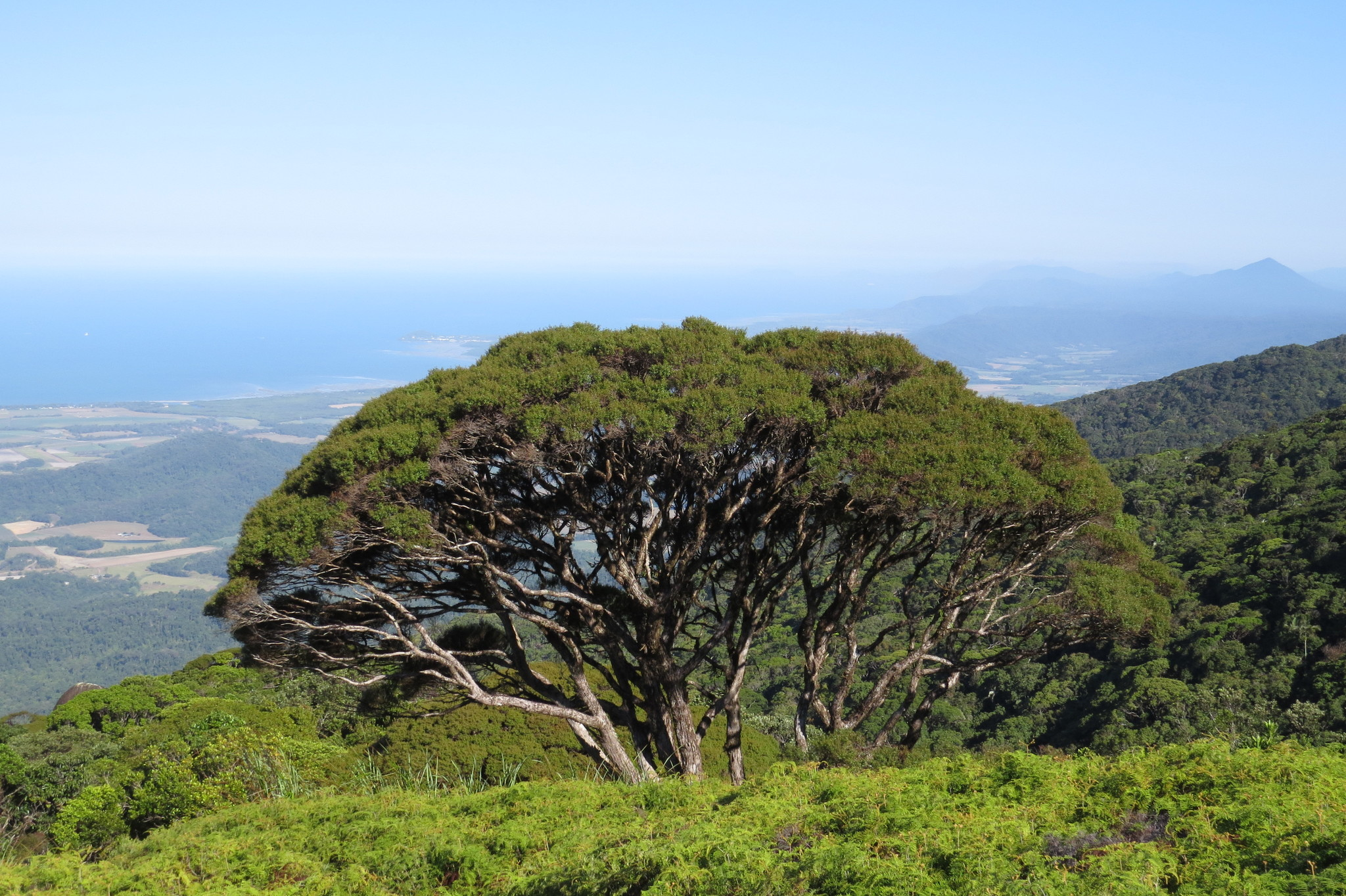 Leptospermum wooroonooran near the Devils Thumb, near Syndicate, north of Mossman, Queensland